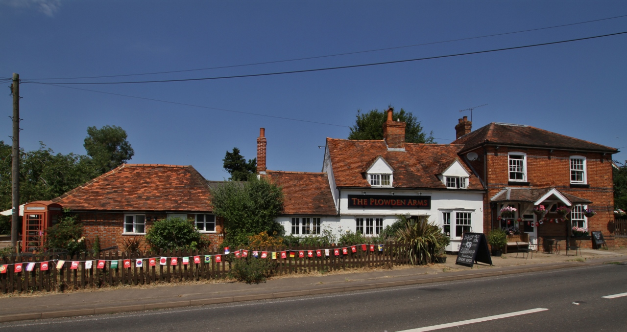 The Plowden Arms, Shiplake, Oxfordshire, seen from the southeast